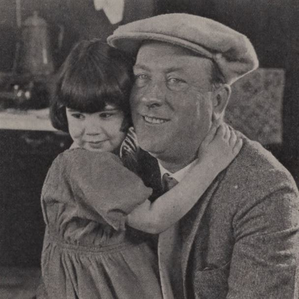 Still from the American comedy film The Darling of New York (1923), captioned under its working title Whose Baby Are You?, with Diana Serra Cary aka Baby Peggy and director King Baggot, on page 27 of the August 4, 1923 Universal Weekly.